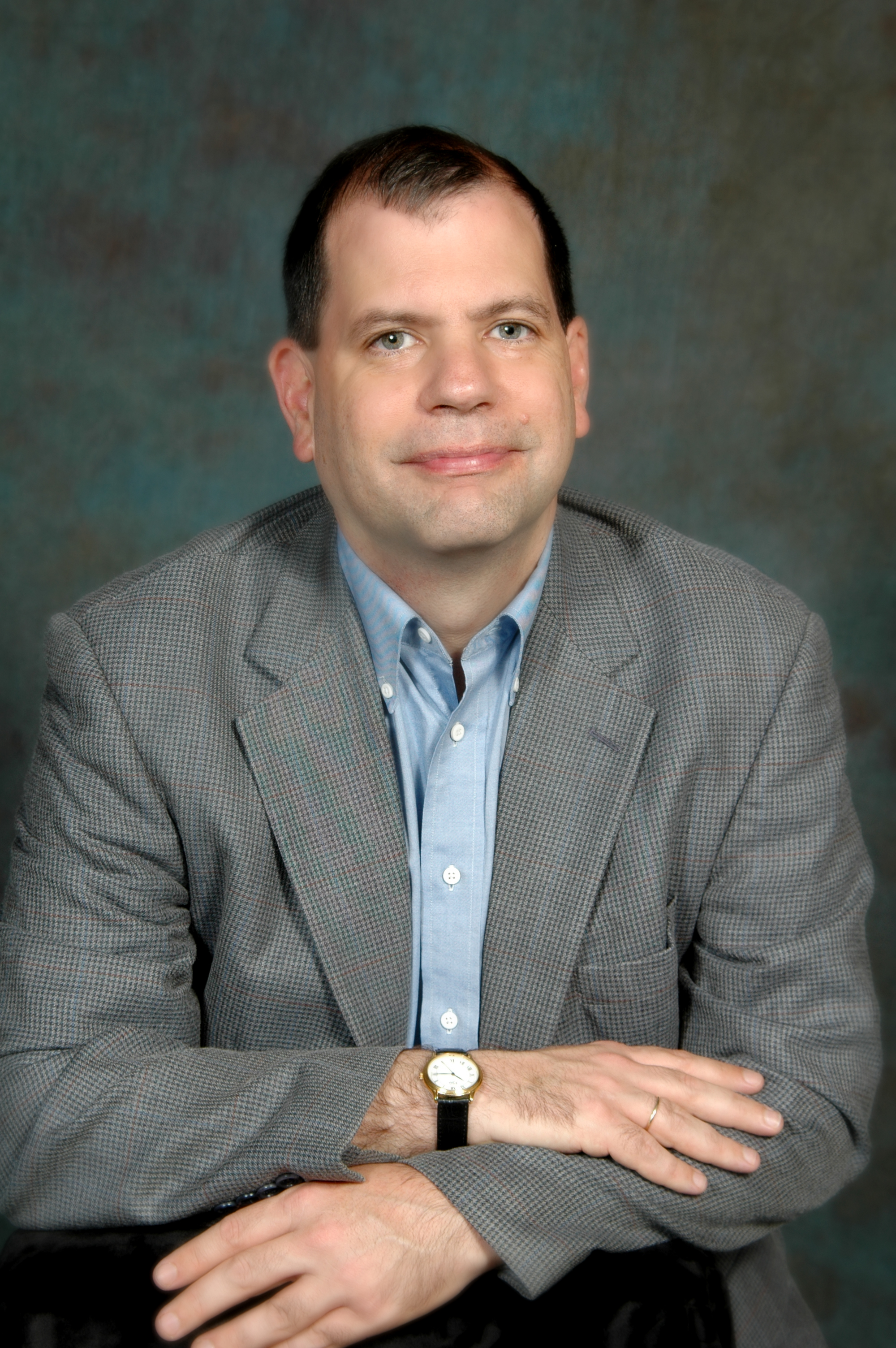 American economist Tyler Cowen